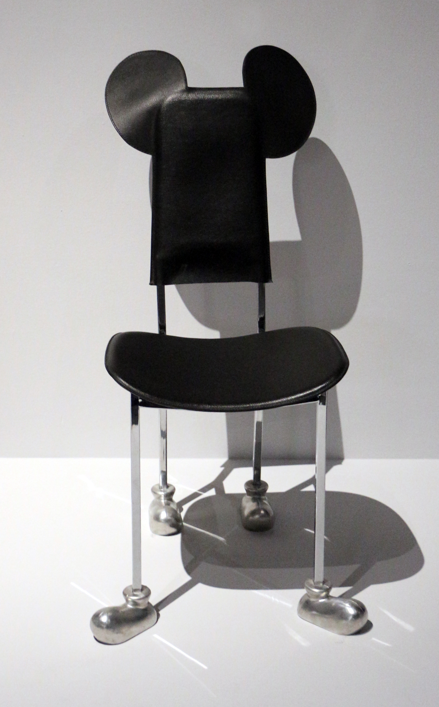 Decorative arts in the Musée national d'art moderne